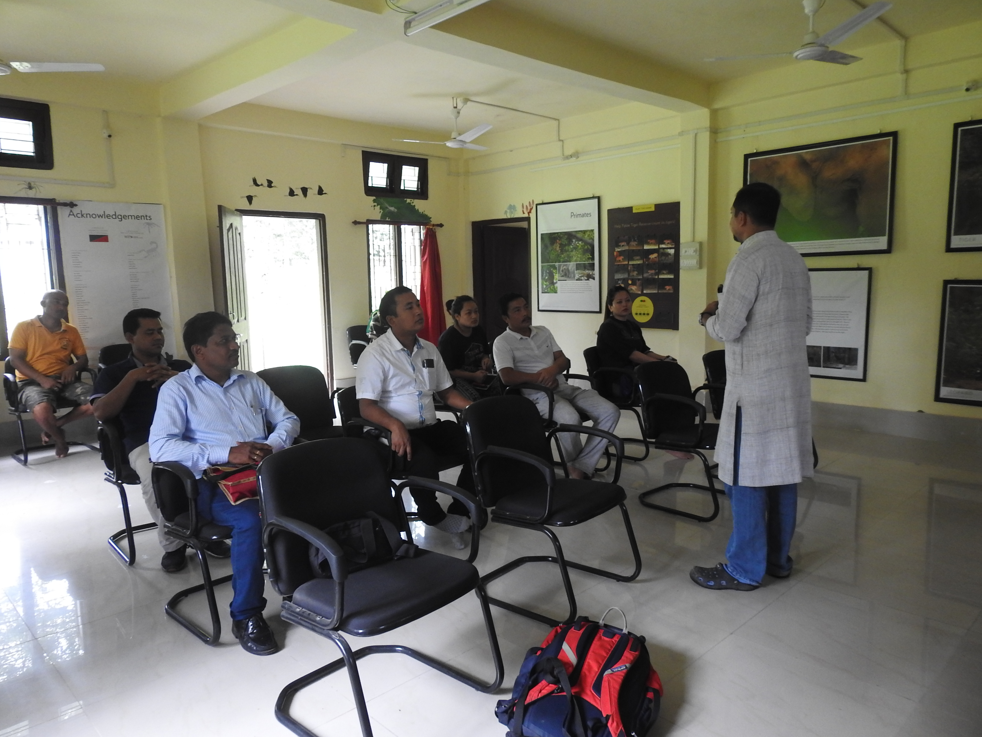 A nature education training workshop for school teachers in Arunachal Pradesh (in Seijosa, Pakke Tiger Reserve) - June 2017